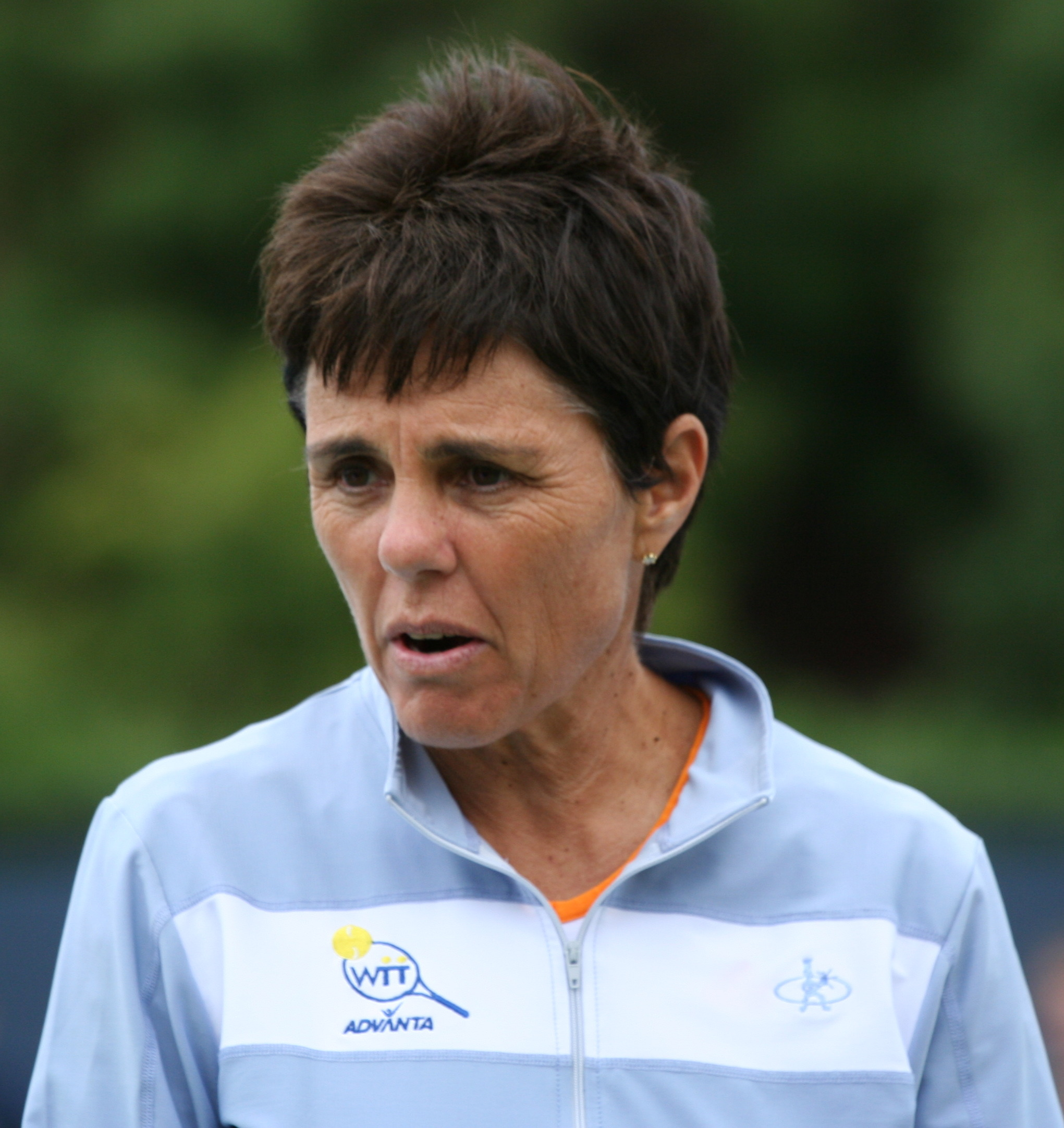 U.S. Open Champions Team Tennis Thursday, Sept. 10, 2009